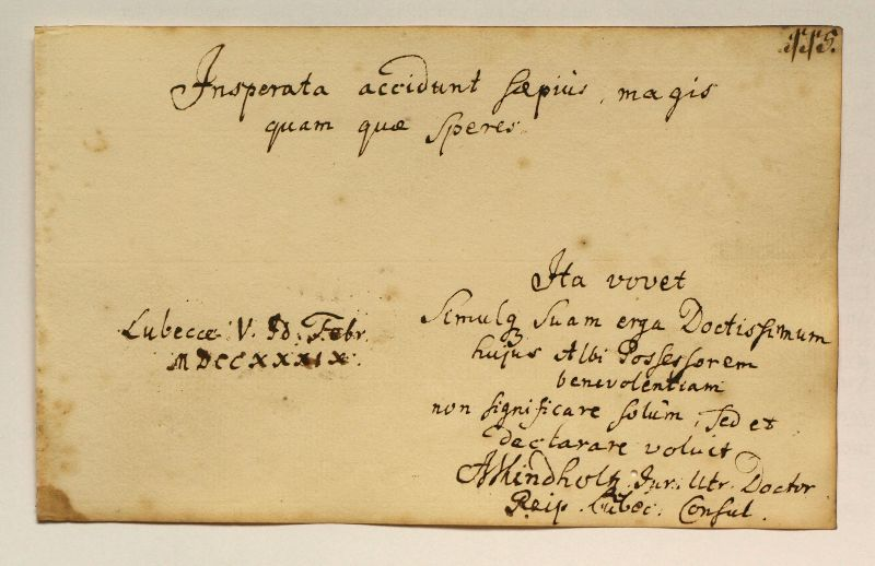 Inscription of mayor August Simon Lindholtz in Album amicorum of Johann Friedrich Behrendt, 1739 February